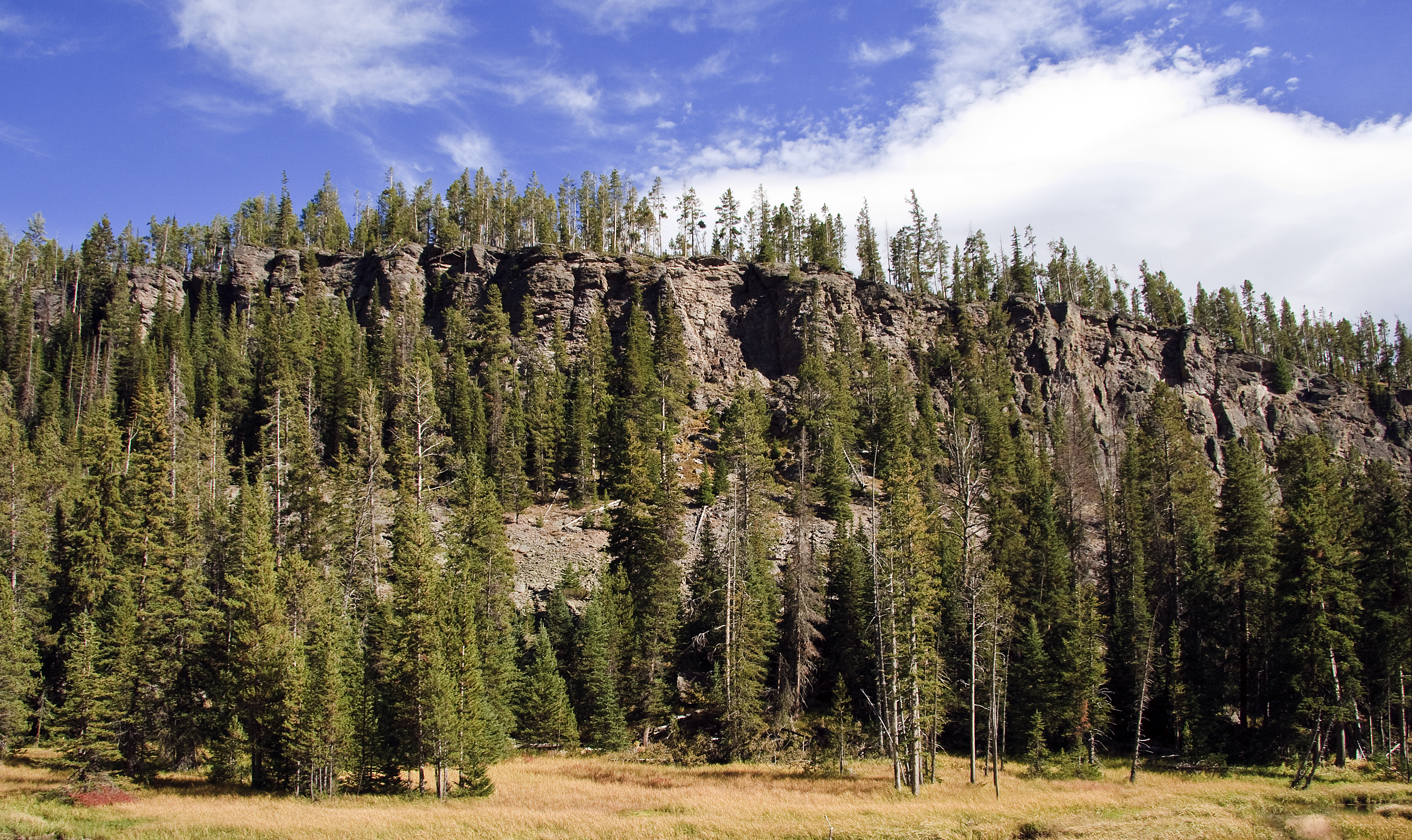 Obsidian Cliff in Yellowstone National Park, Wyoming, USA